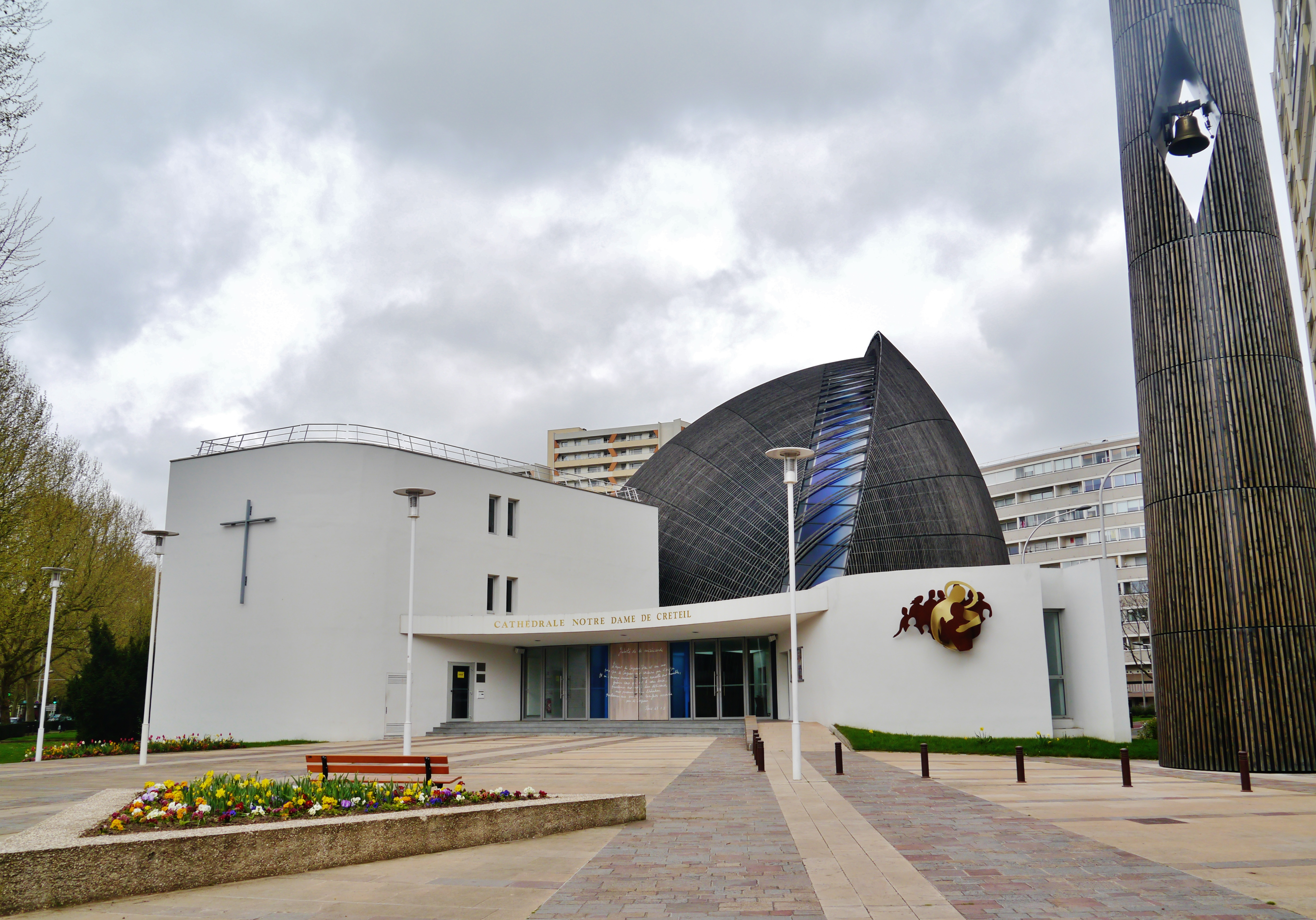 Facade of the Cathedral of Our Lady, Créteil, Departement of Val-de-Marne, Region of Île-de-France, France